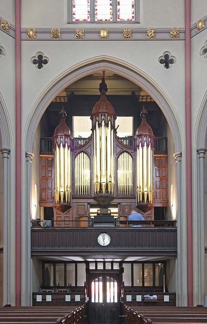 St Dunstan in the West, Fleet Street, London EC4 - Organ loft